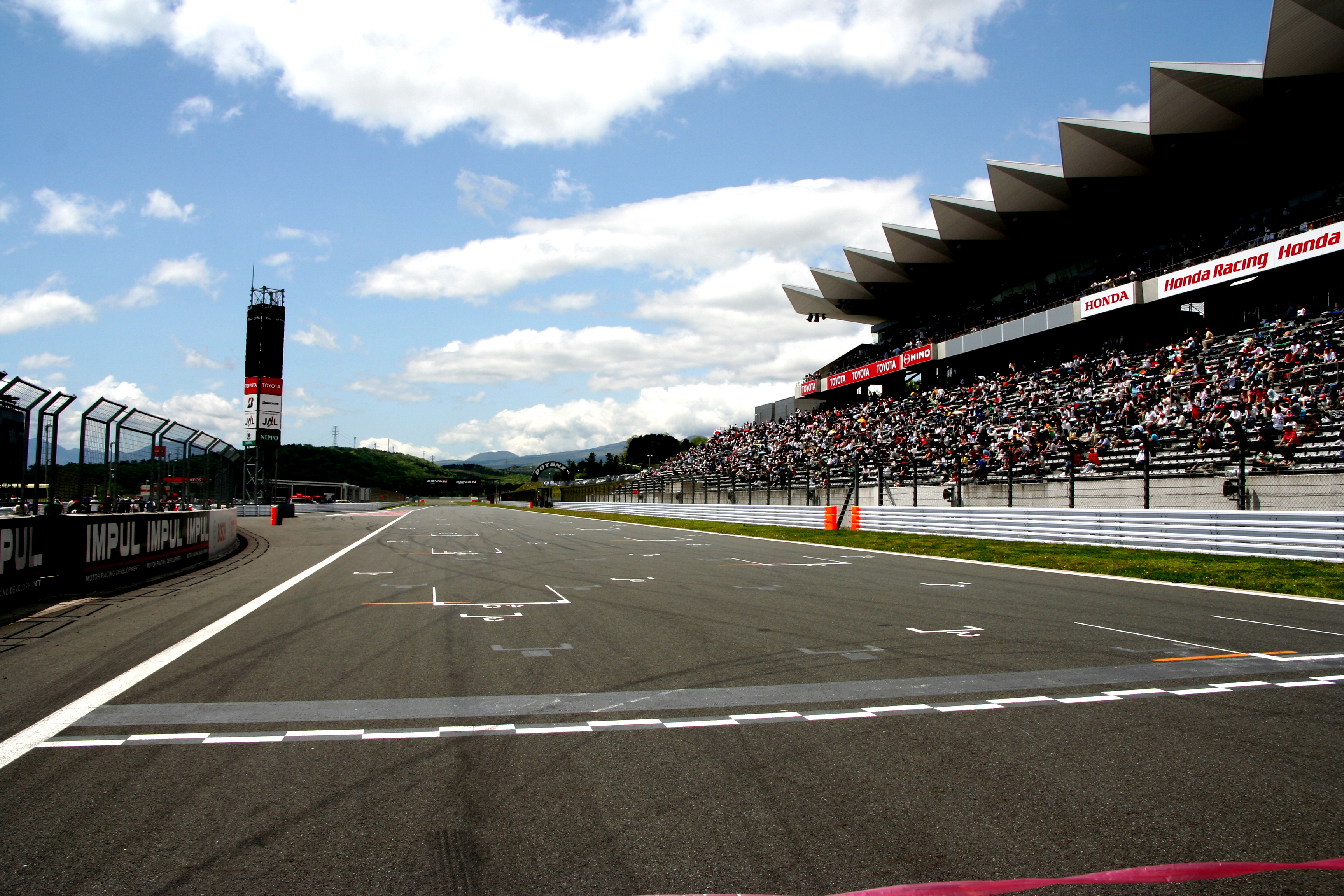 Fuji Speedway start-finish line